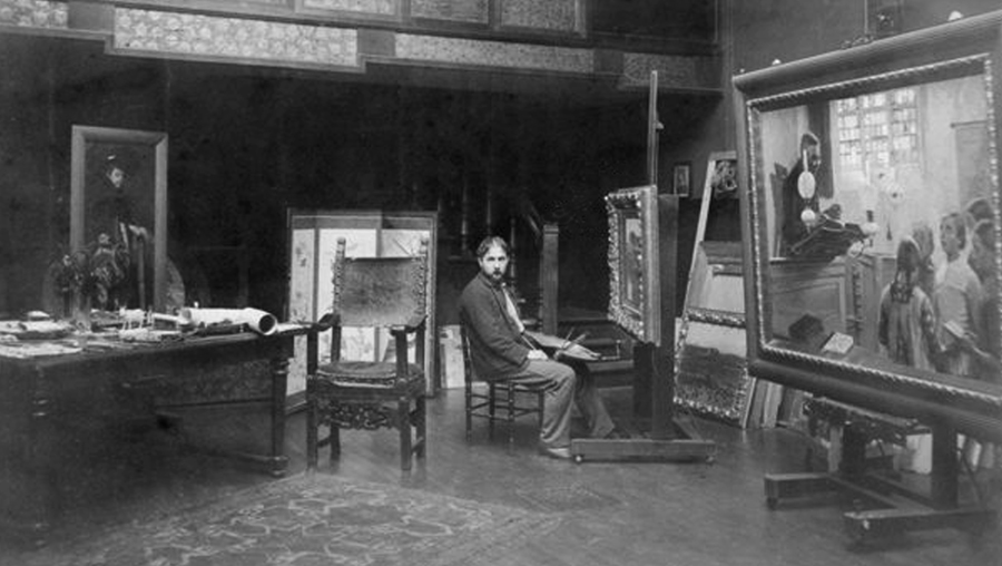 Gari Melchers in his studio, Paris, 1889